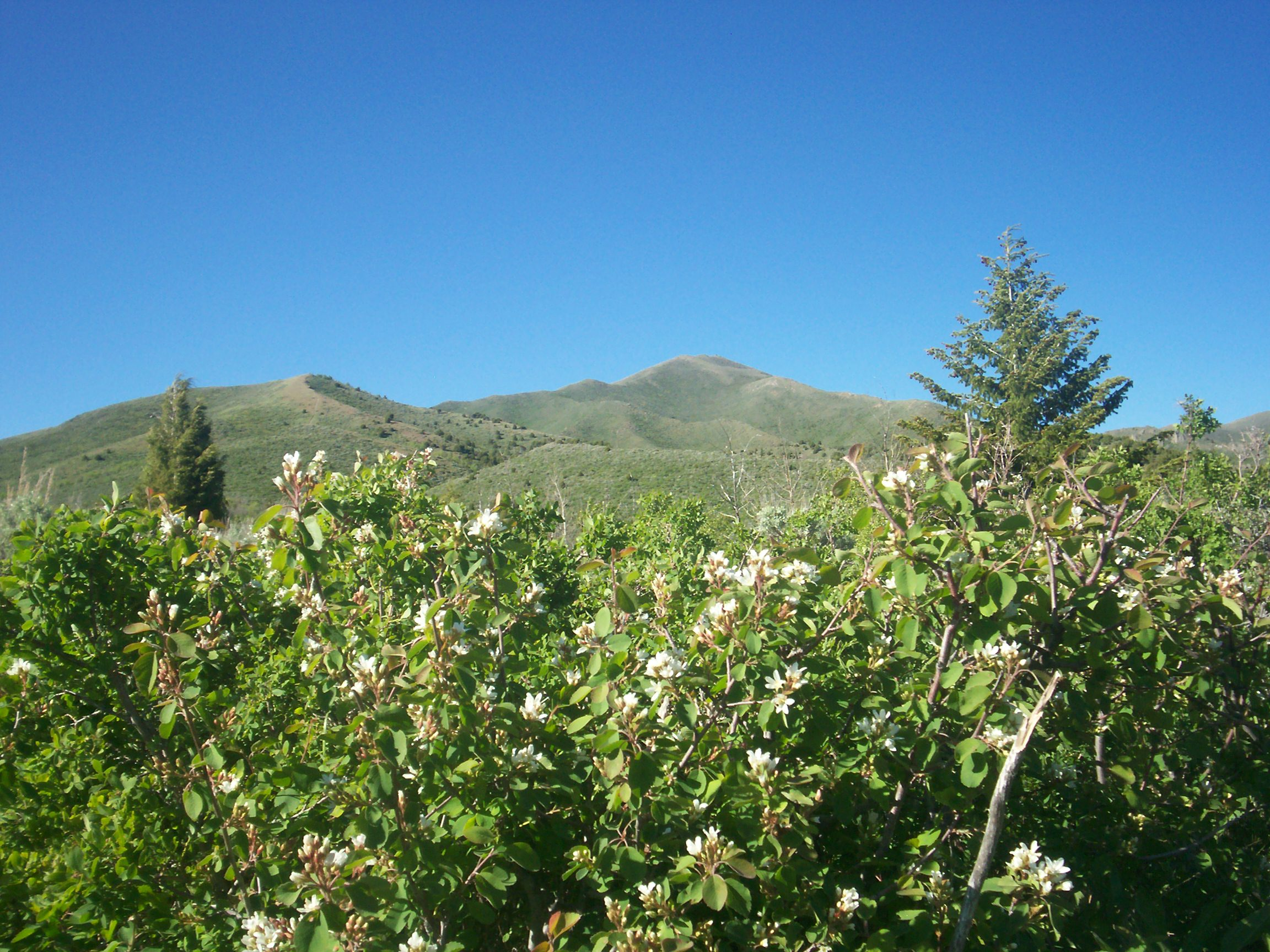 Taylor Mountain, framed by wildflowers, in the Blackfoot Range, Bingham County, Idaho